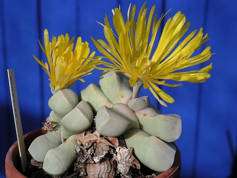 Personnal collection